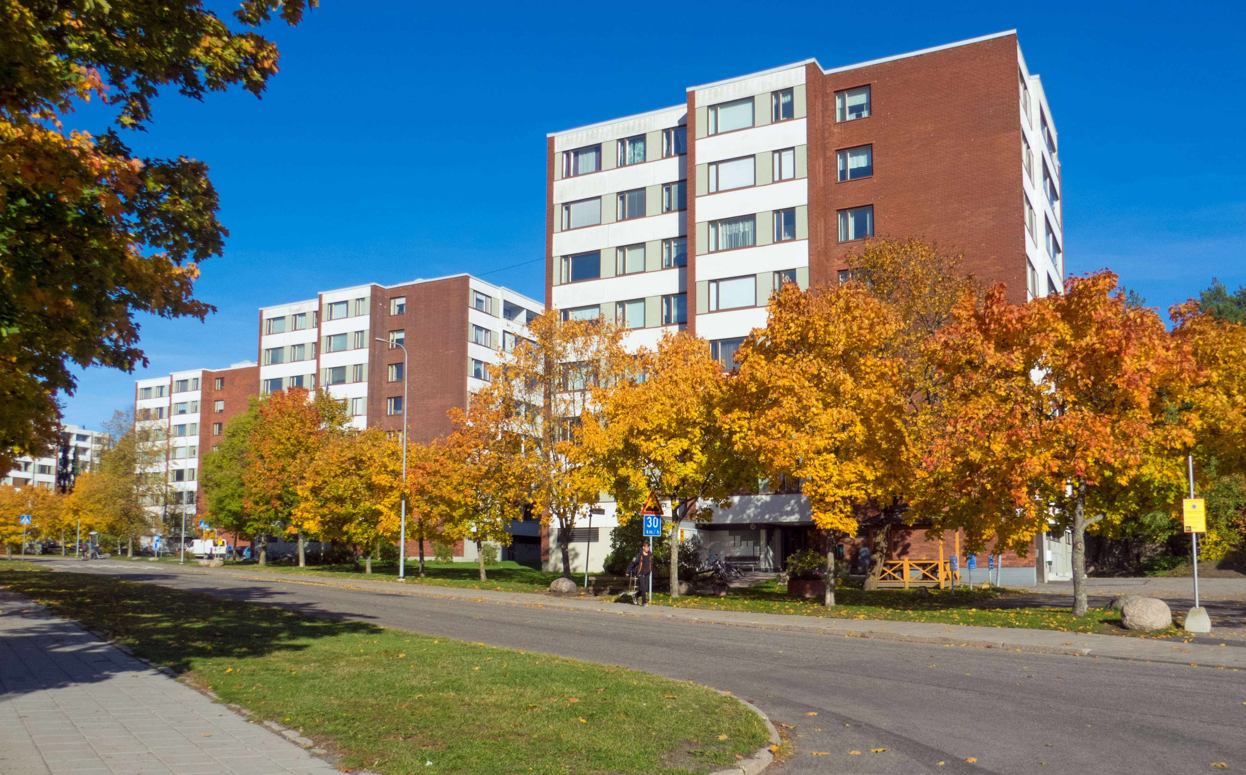 Lumikonkatu street with apartment buildings in Pansio, Turku, Finland.